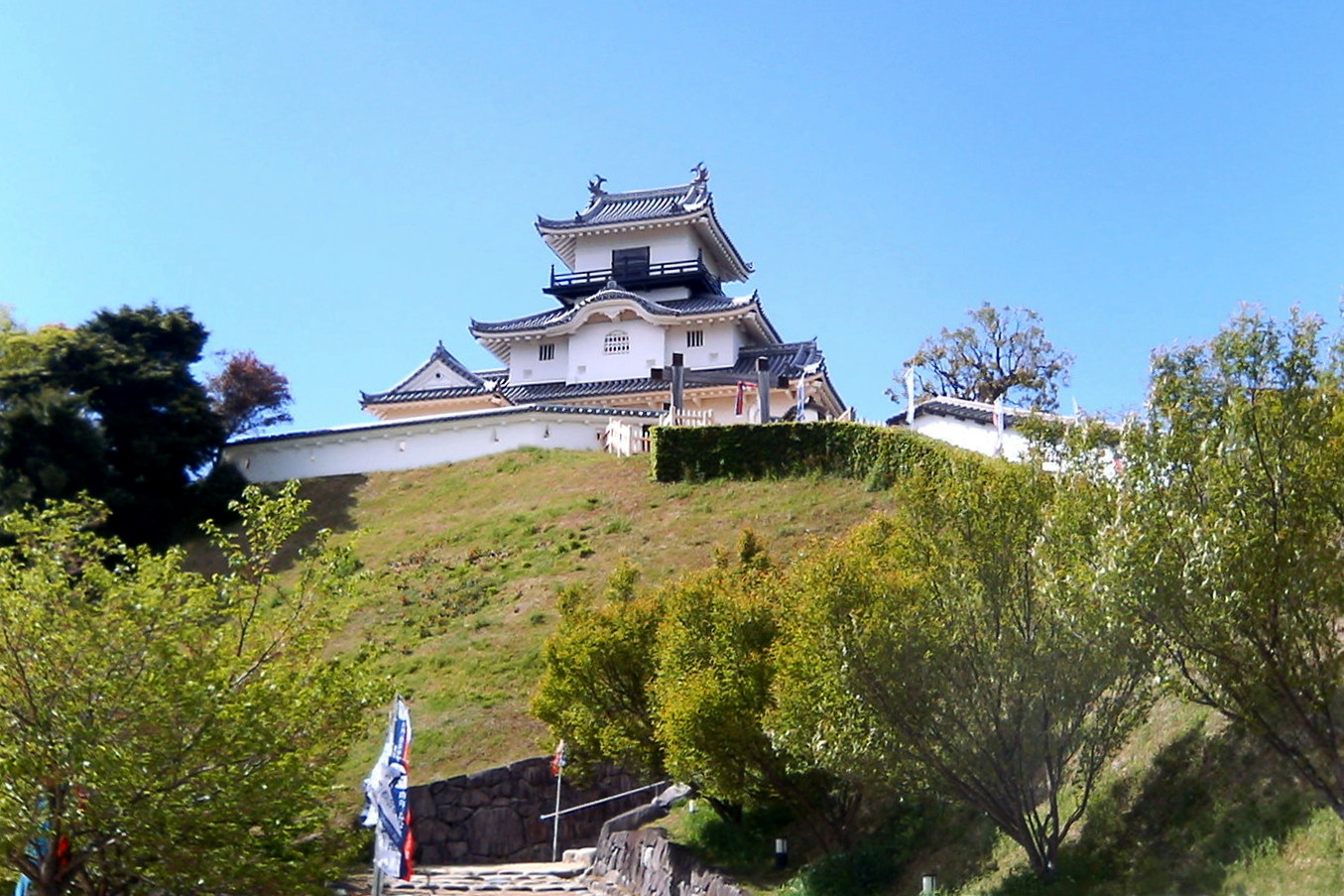 Taken by user and uploaded under the GFDL.